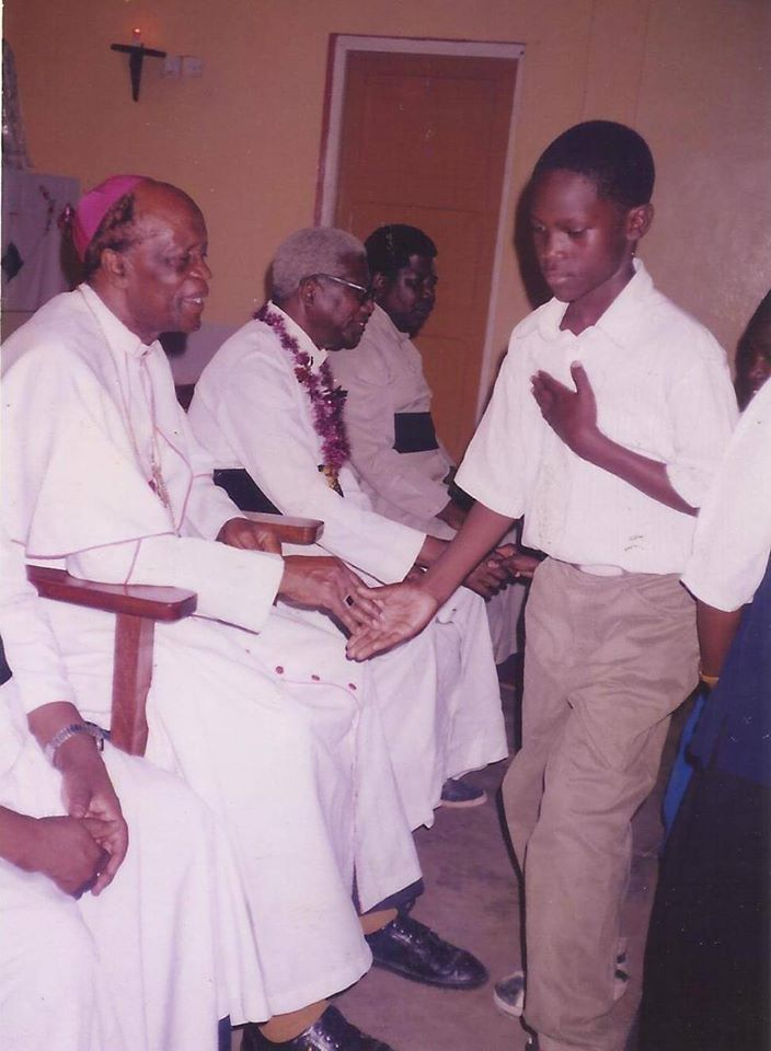 Bishop Matthew Shija Greating a Child (child Samson Aloyce after his first communion in the year 1998) at the Cathedral of Saint Charles Lwanga, Kahama, Tanzania.